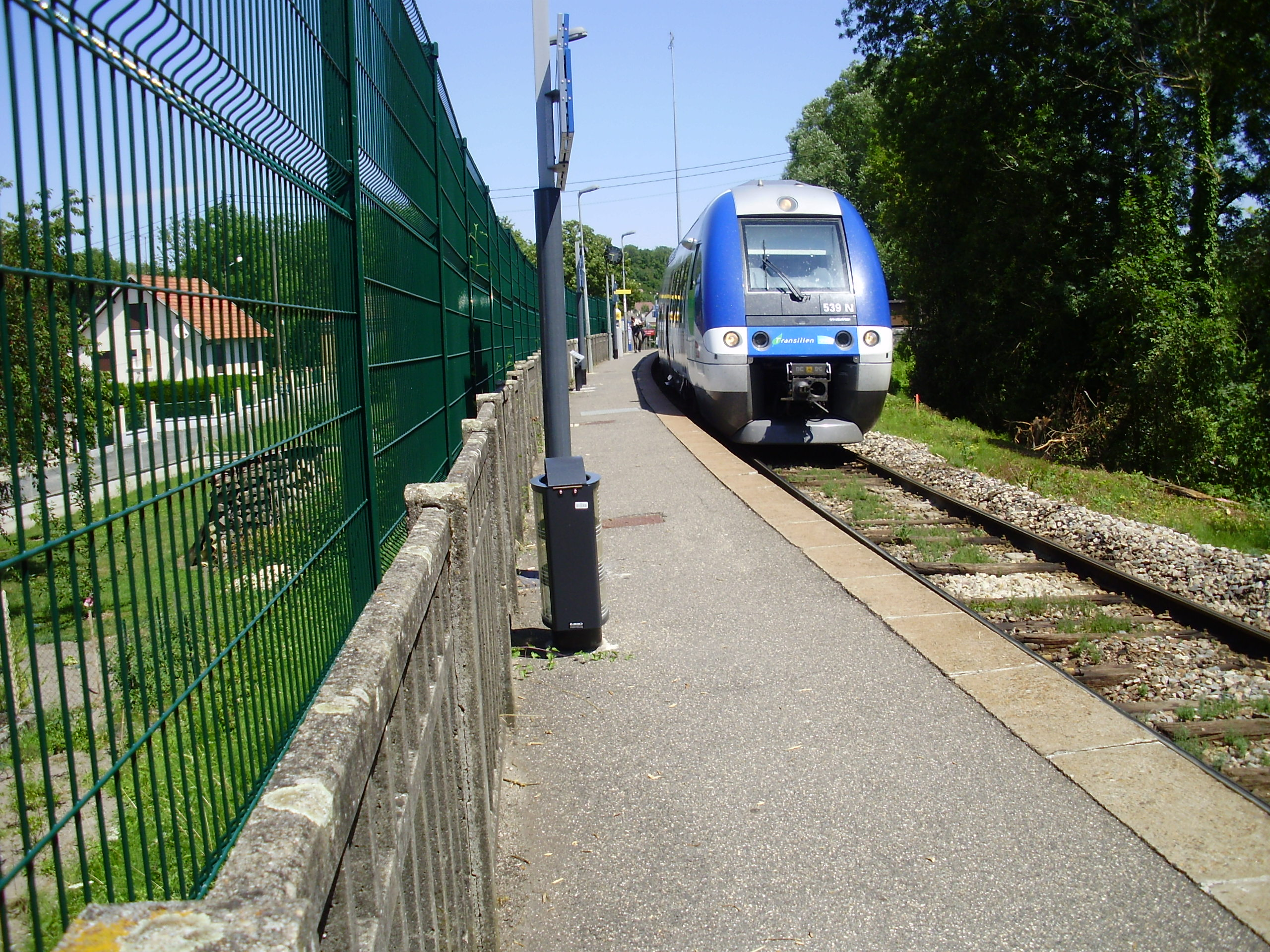 Sainte-Colombe - Septveilles station, in Sainte-Colombe, Seine-et-Marne, France (multiple unit Class B 82500 arriving from Provins and going to Paris-Est station)